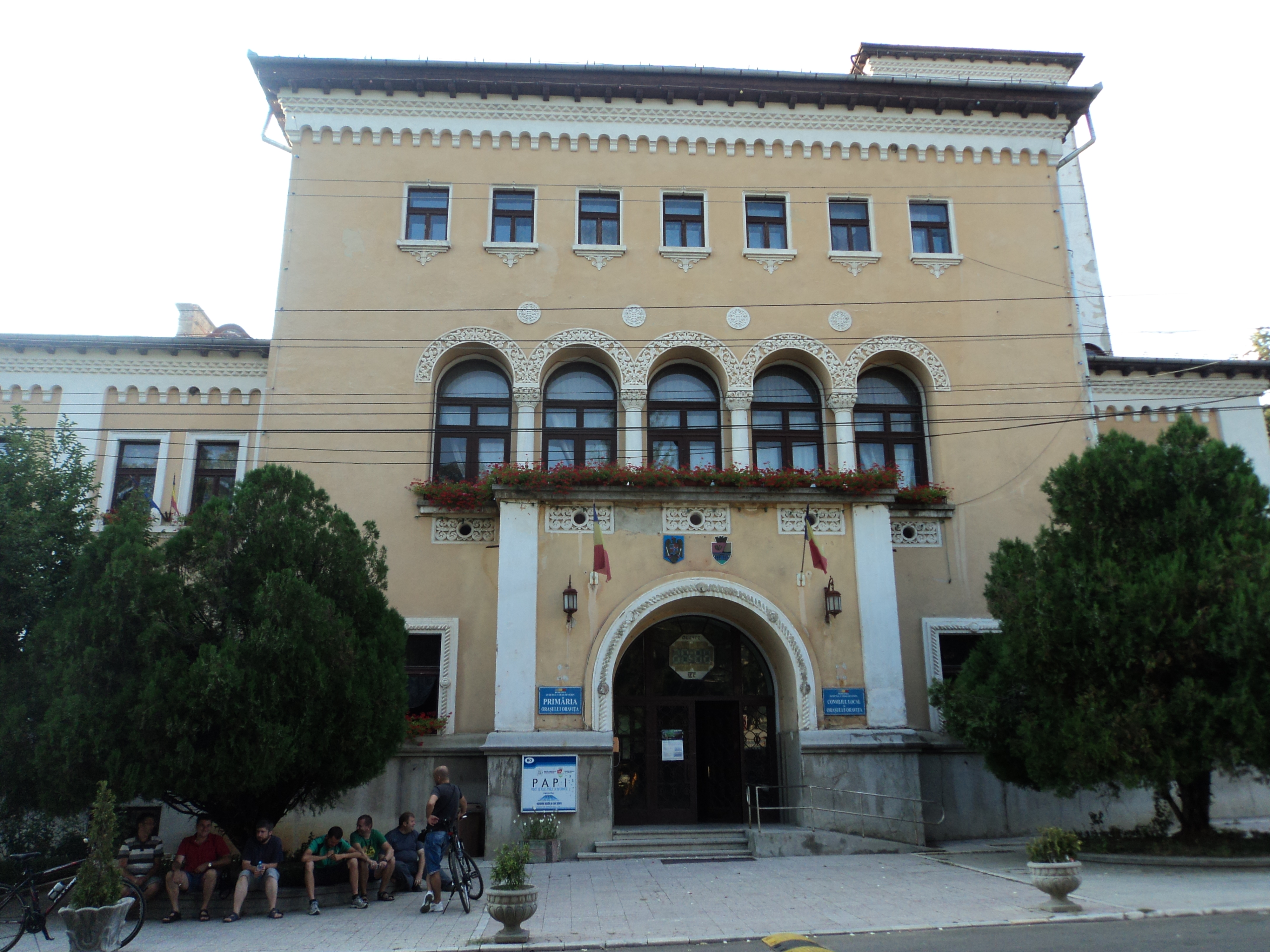 Oravița Town Hall, the former Caraș County Hall.